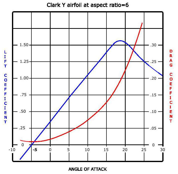 Note: For a Clark-Y airfoil the geometrical reference for angle of attack is the flat lower surface. drawing by Meggar